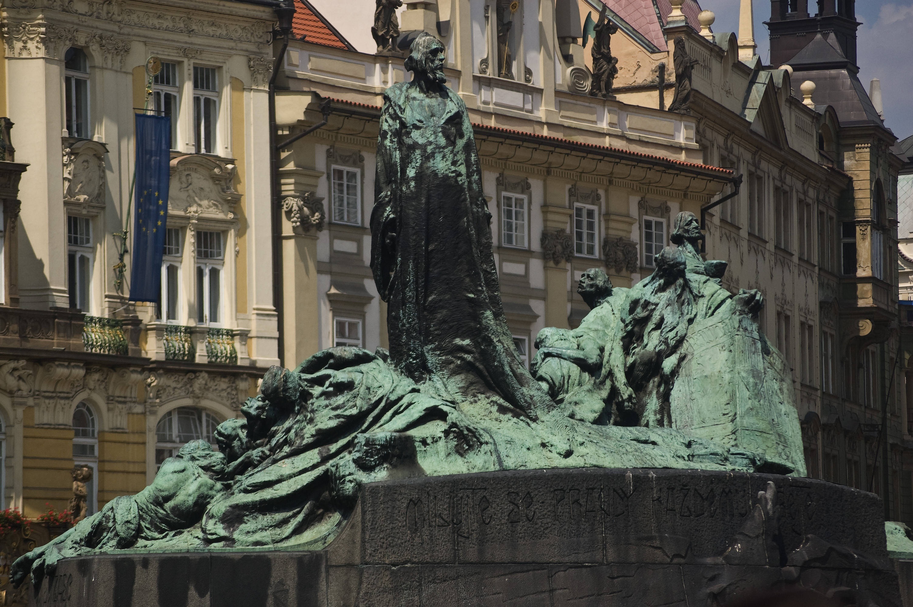 The Jan Hus monument in the Old Town Square in Prague, capital of the Czech Republic.